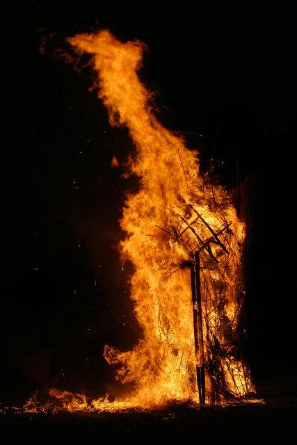 The 2007 burning wicker man, Butser Ancient Farm The experimental archaeology centre has a special event at the beginning of May each year, which finishes with the burning of a giant wicker man - the link with the past is via the writings of a Roman historian who said that the British burnt such things. The event draws over a thousand visitors to the centre and the funds help to keep the centre running.